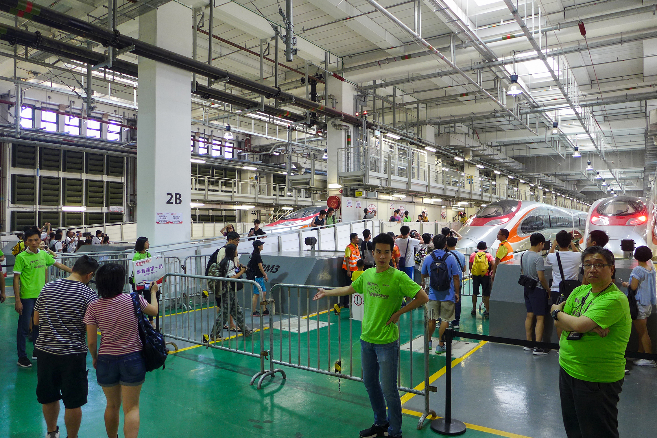 Shek Kong Stabling Sidings interior